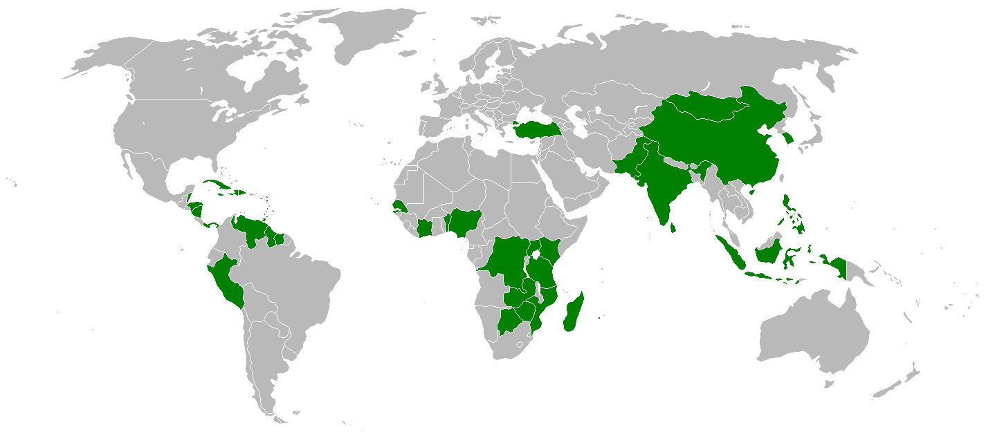 G 33 members nations